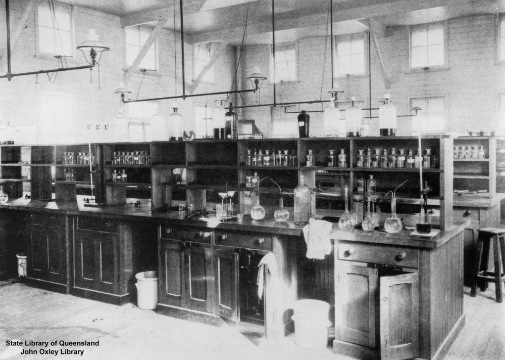 Interior of the School of Mines laboratory, Charters Towers, Queensland, 1908. Interior view of the School of Mines laboratory, Charters Towers. Wooden benches and various laboratory apparatus are visible on the benchs and shelves. Lights are hanging from the ceiling.